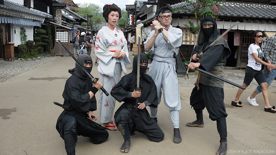 Modern depiction of ninja with ninjato (ninja sword), Edo wonderland, Japan.